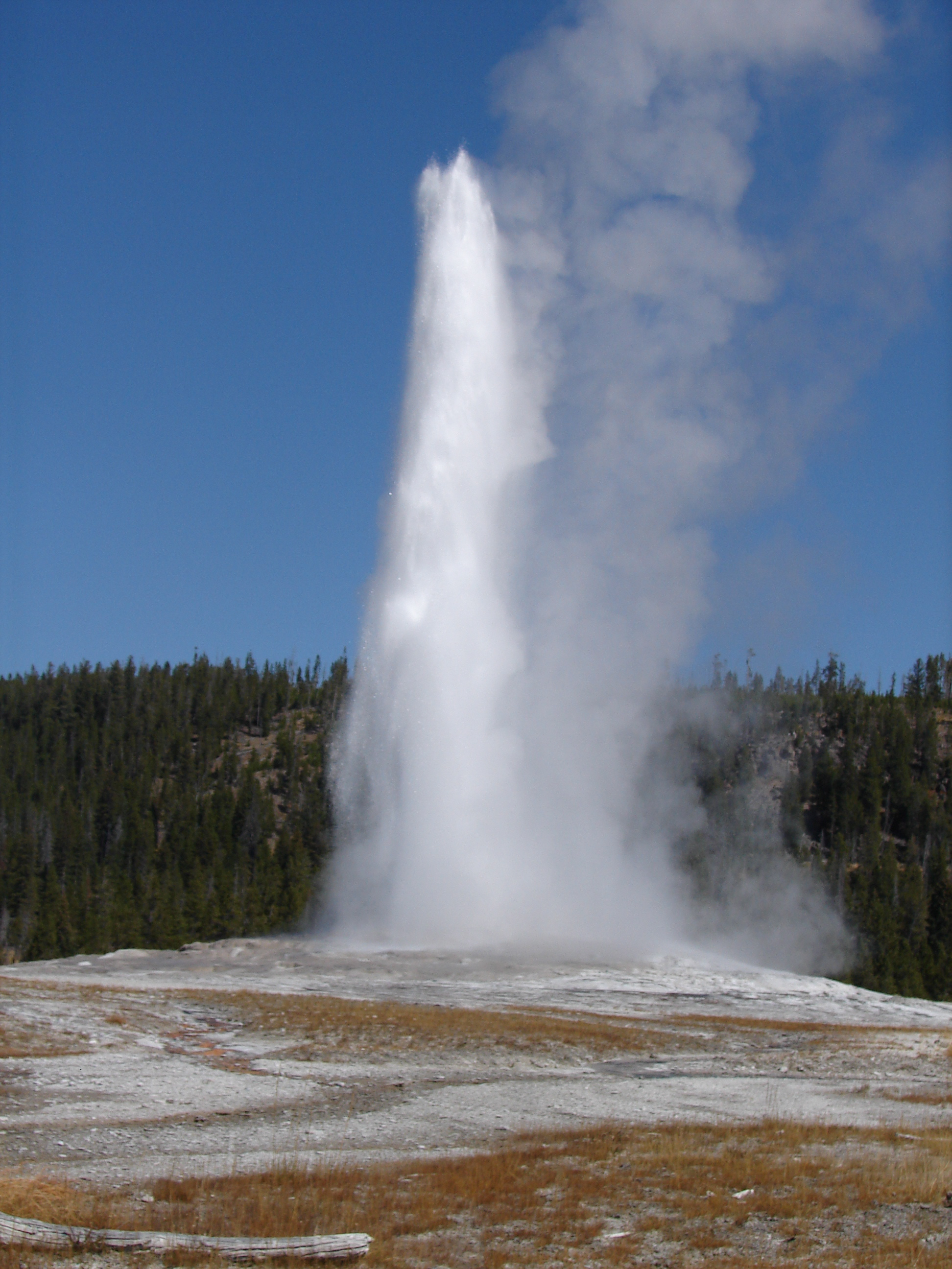 Old faithful geiser